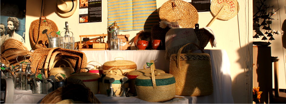 FAGVV - Artesanato